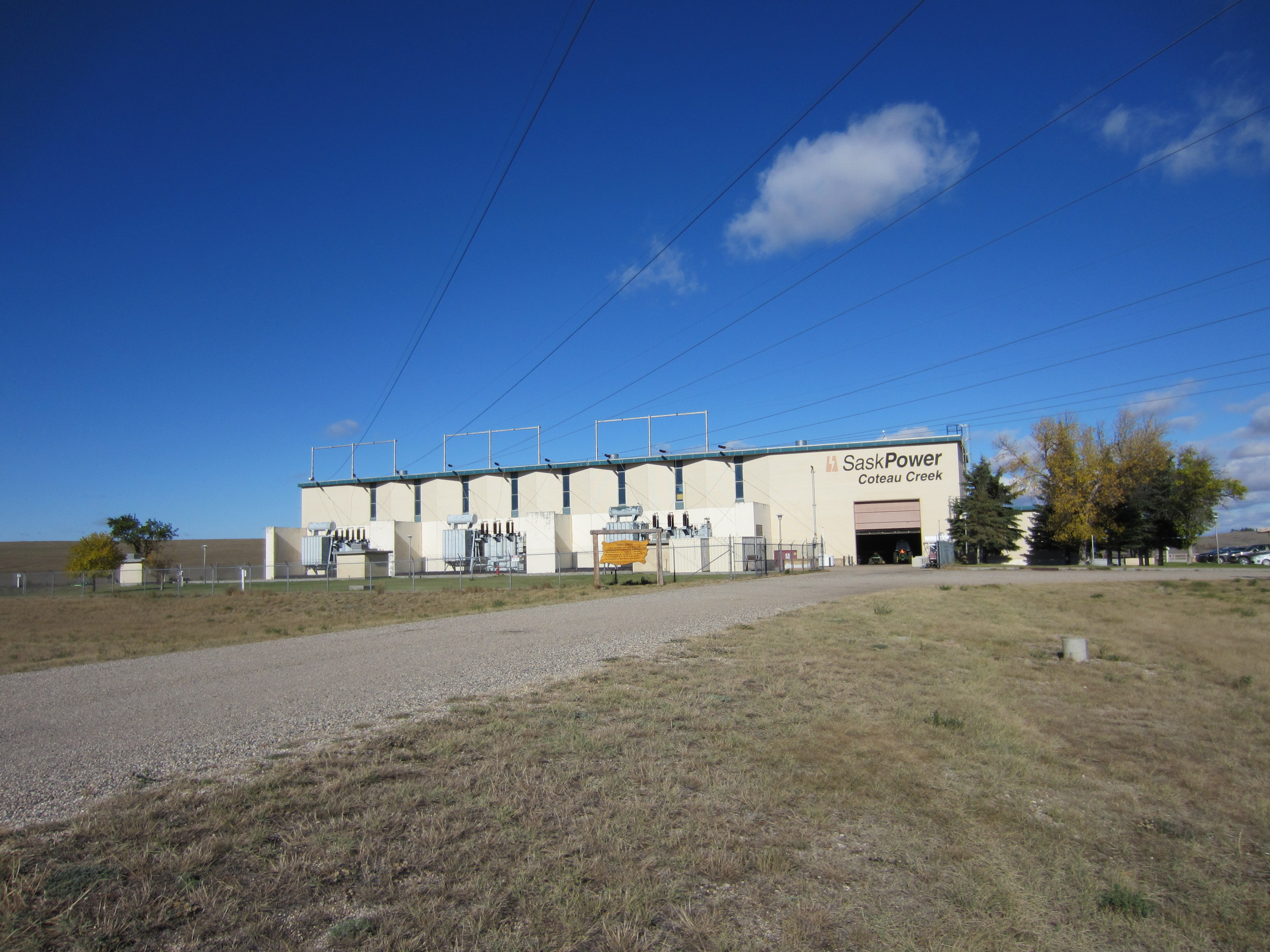 Saskpower Coteau Creek Generating Station powerhouse, near Outlook Saskatchewan; a 186 MW station using water from Lake Diefenbaker and the Gardiner Dam.